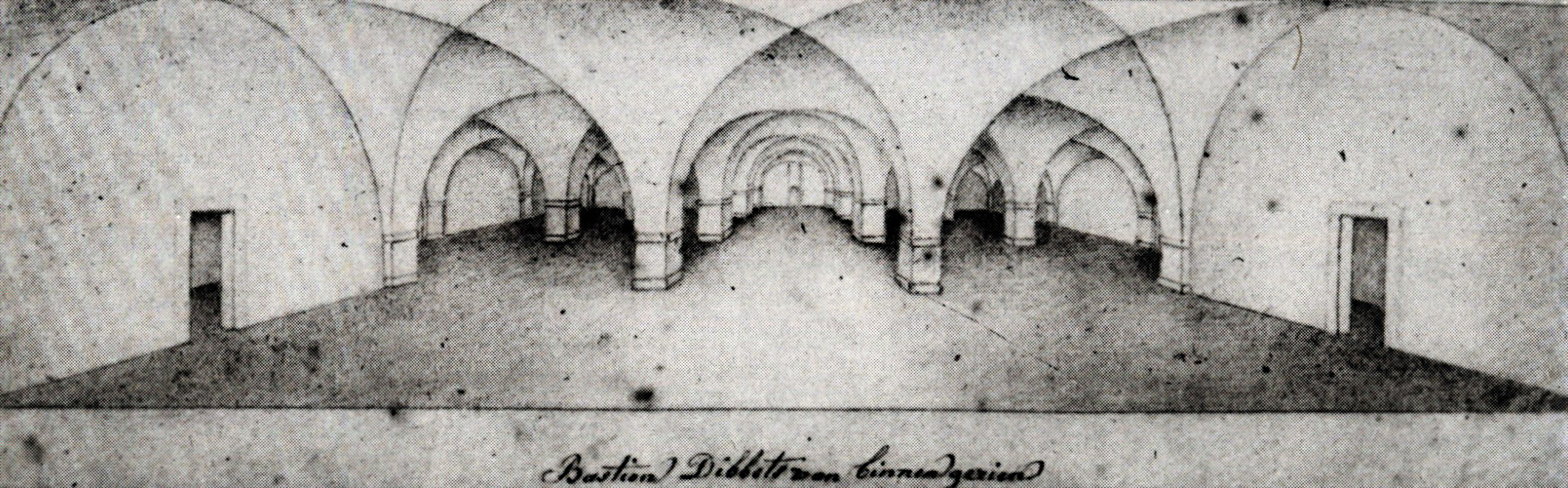 Maastricht, the Netherlands. View of early 19th c casemate C (or kazemat Dibbets) in the northern section of the fortifications (Nieuwe Bossche Fronten). Drawing by Jan Brabant, c 1860.